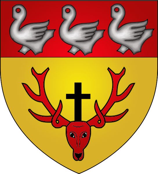 Coat of arms of the municipality of Munshausen, Luxembourg (valid until 1 January 2012)